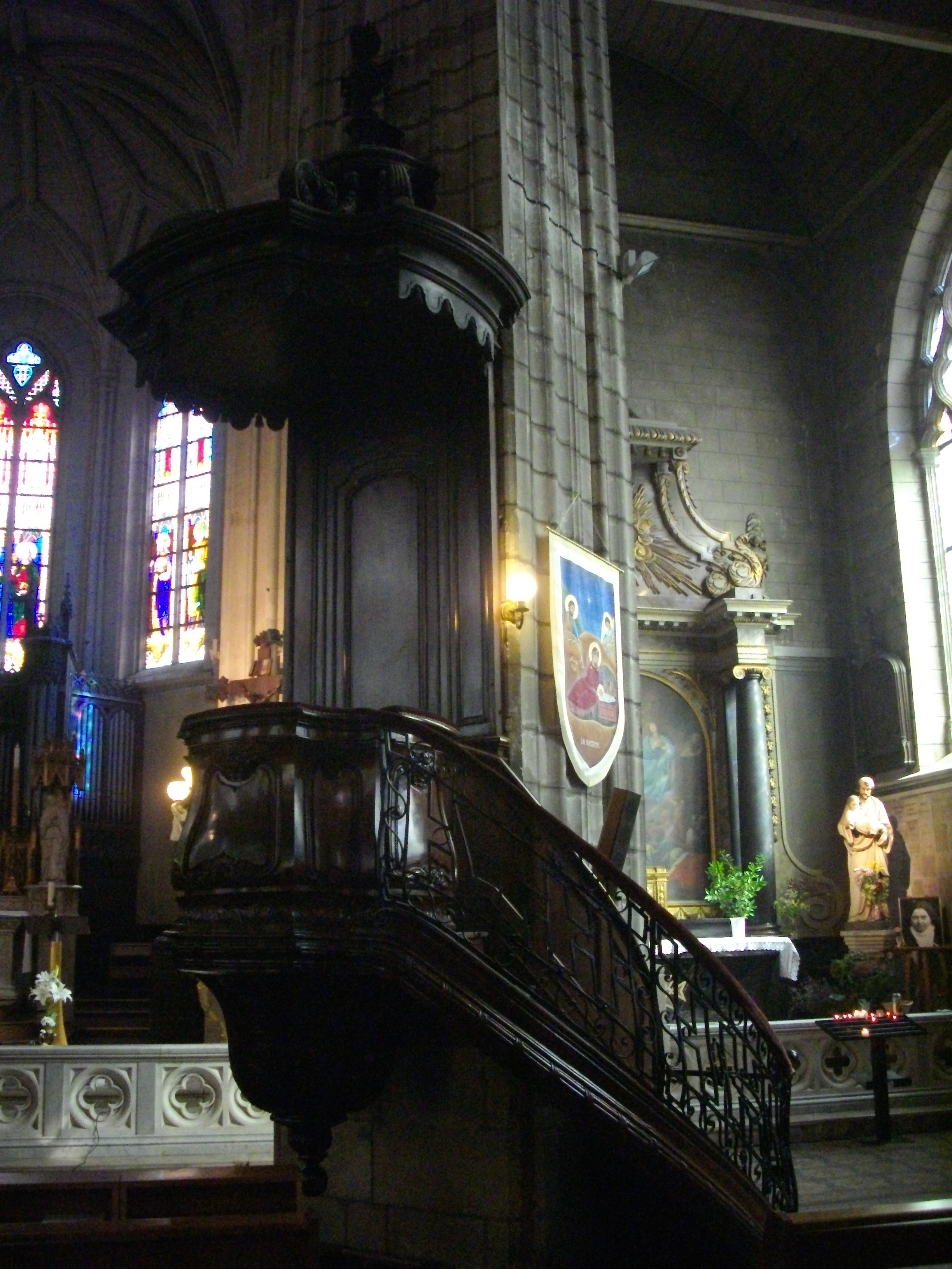 Holy Cross church of Nantes (Loire-Atlantique, France)